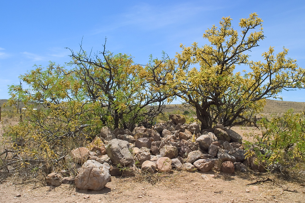 This pile of stones erected by members of the U.S. Army marks the site of Geronimo's surrender on September 4, 1886. Located in Skeleton Canyon-(Peloncillo Mountains (Hidalgo County)), with its terminus in west in southeast Cochise County, Arizona.